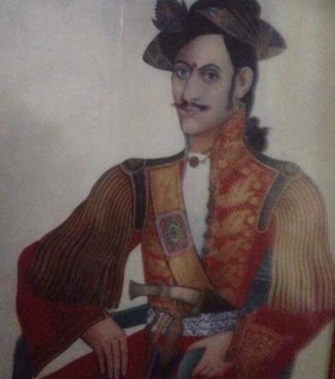 General Ranabir Singh Thapa (born 1790), Brother of Mukhtiyar Bhimsen Thapa